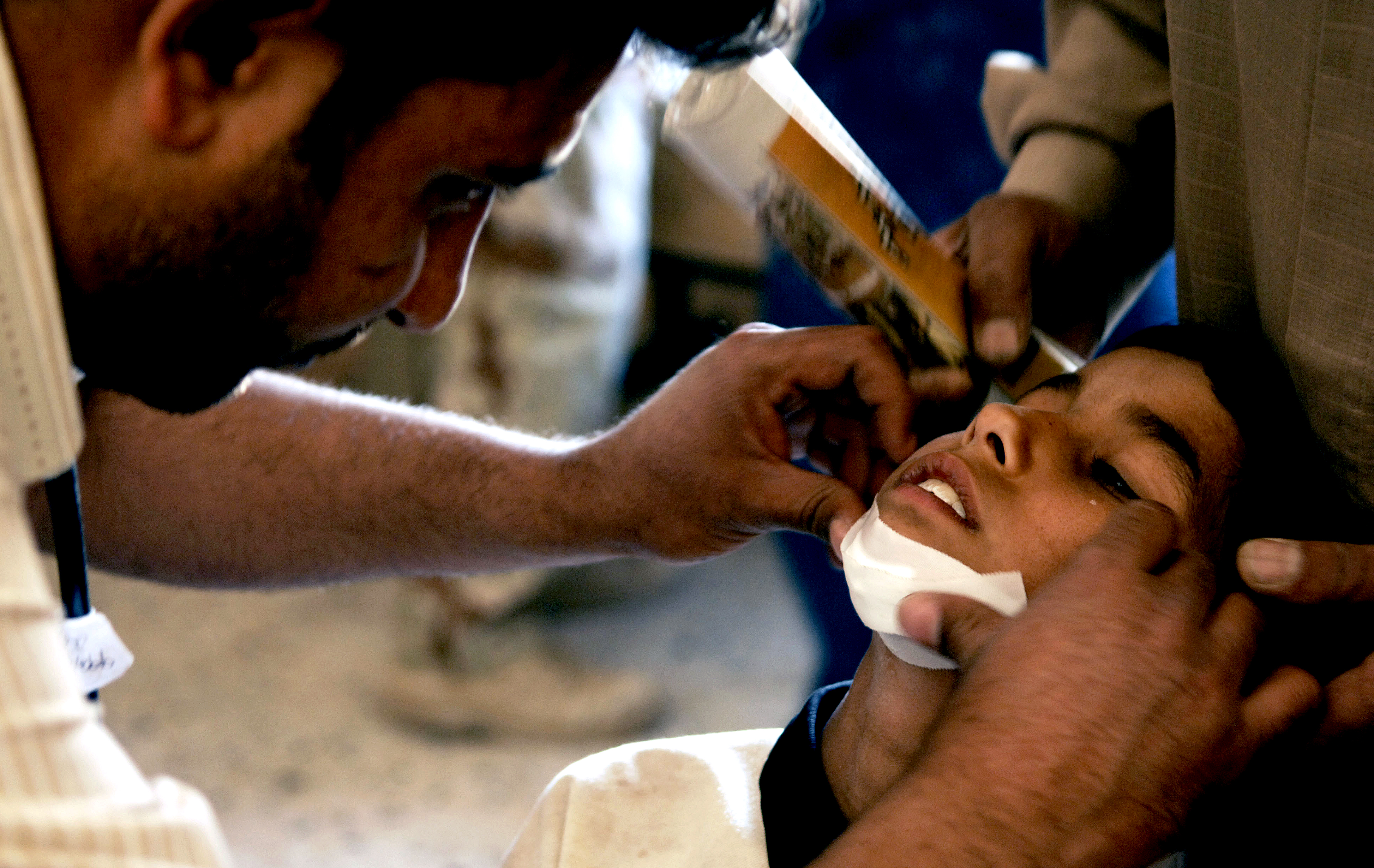 A local doctor bandages a boy's chin during a combined medical effort in Bata, Iraq, March 17, 2008.